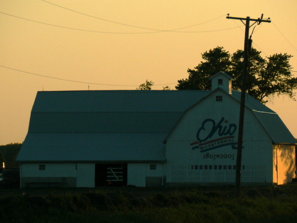 There's one of these in every county in Ohio. Ottawa is the county east of where I live. Ottowa County, Ohio Bicentennial barn